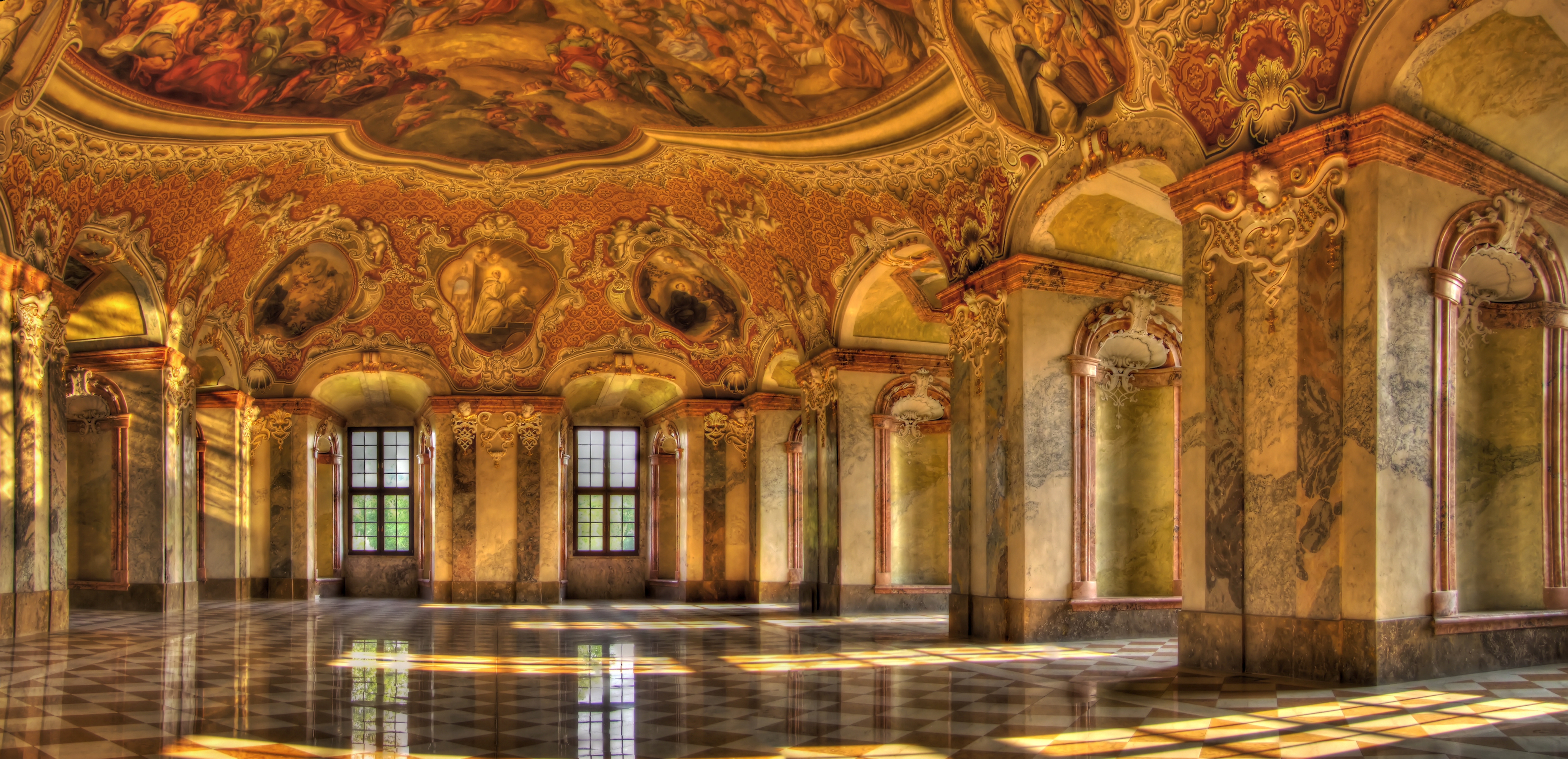 Main refectory of The Cistercian Monks Abbey in Lubiąź, Dolnośląskie Province, Poland.